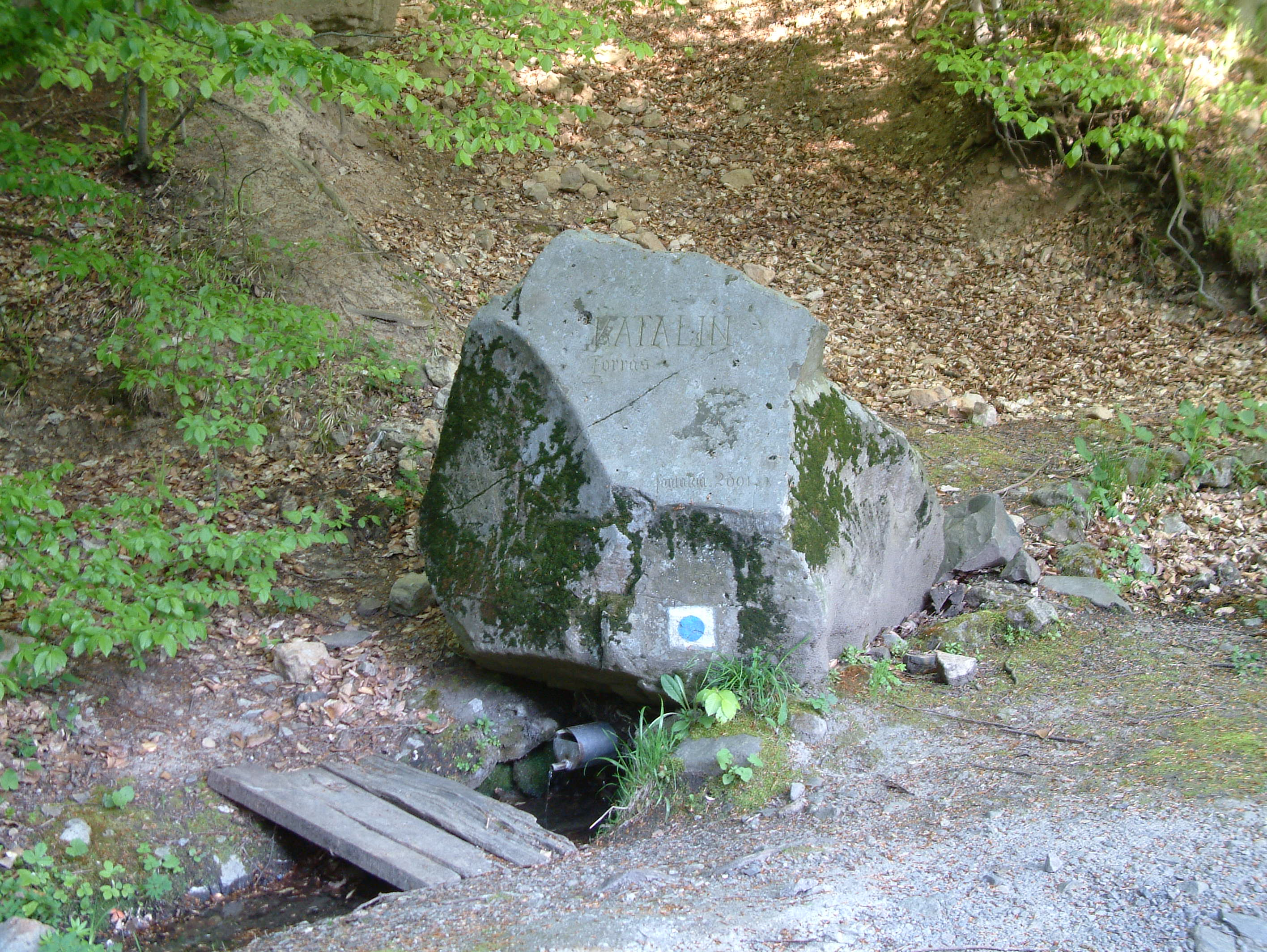 Katalin Spring in Börzsöny